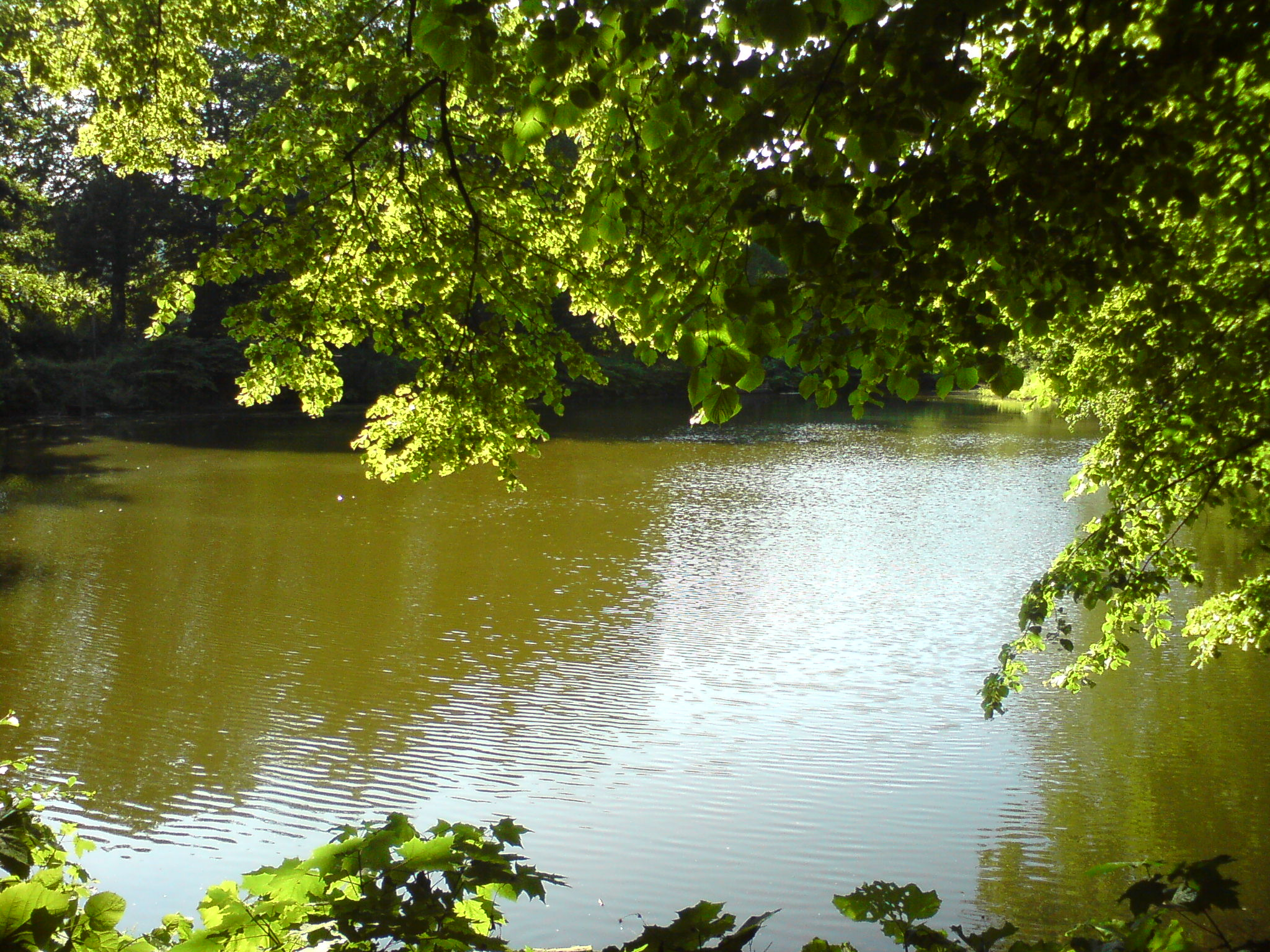 Hamburg (Belgium): Little lake at the river Flottbek